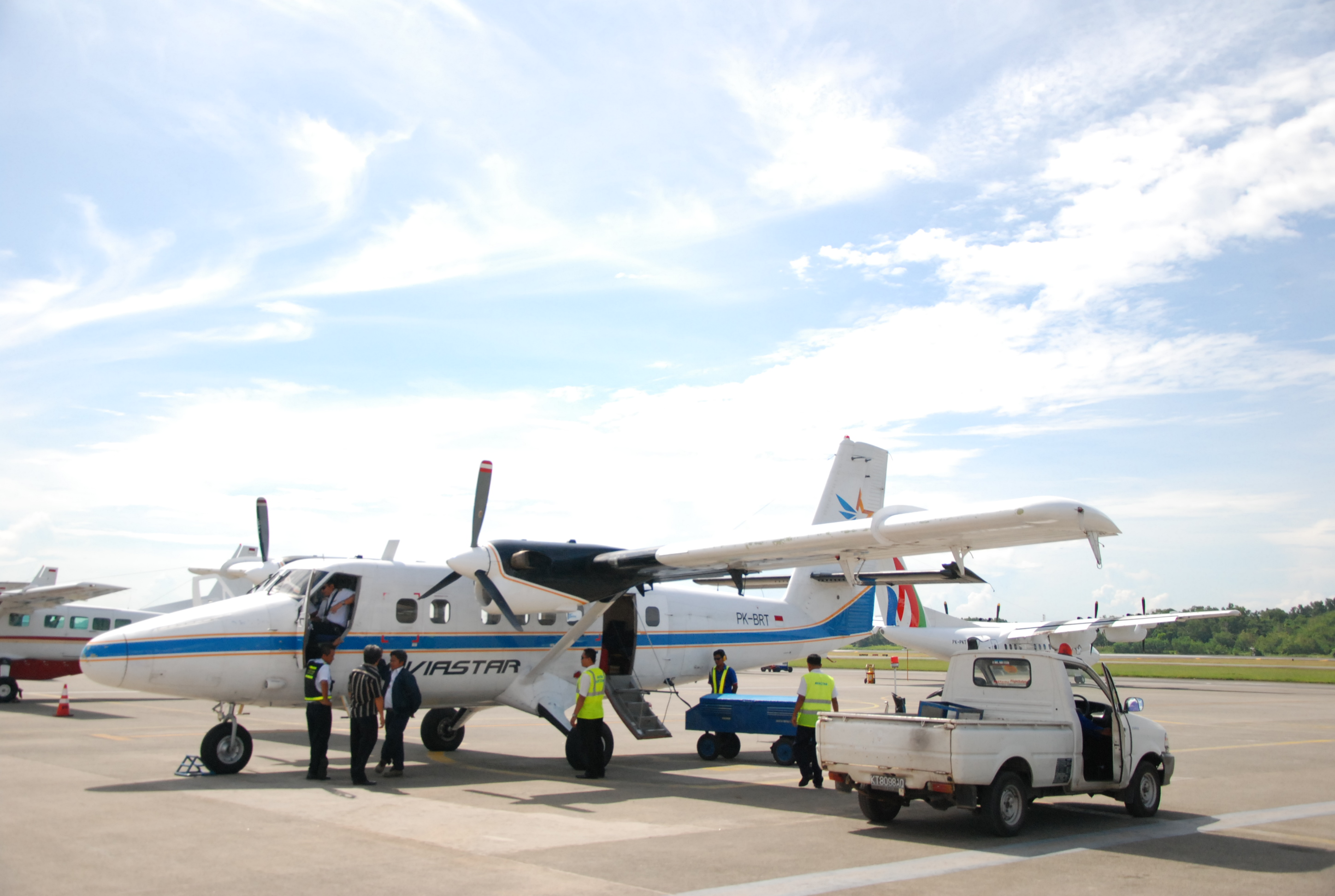 Aviastar at HLP